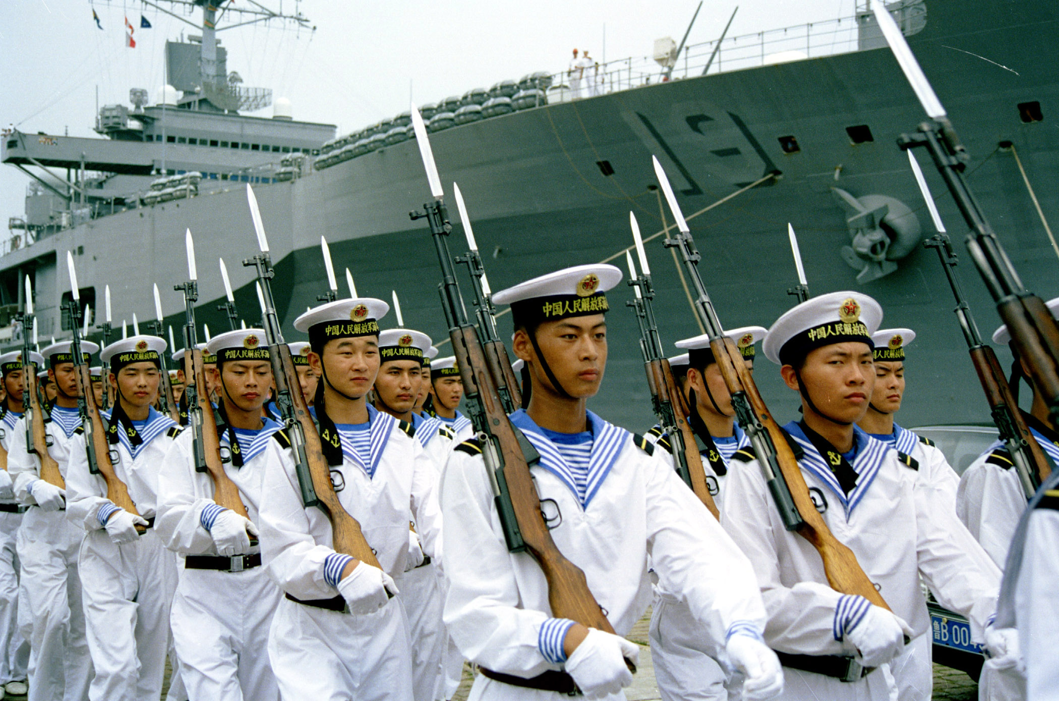 Sailors of the People's Liberation Army Navy, The ship in the background is the USS Blue Ridge (LCC 19), the United States Seventh Fleet flagship homeported in Yokosuka, Japan. The sailors are carrying Norinco SKS rifles. Hình:PLAN sailors.jpg